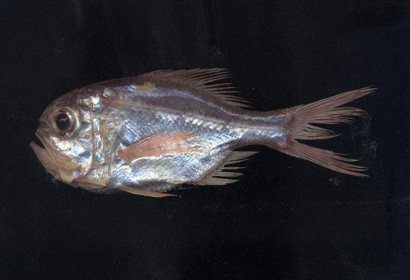 Hoplostethus mediterraneus mediterraneus photographed by Pierluigi Angioi.